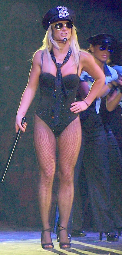 Britney Spears